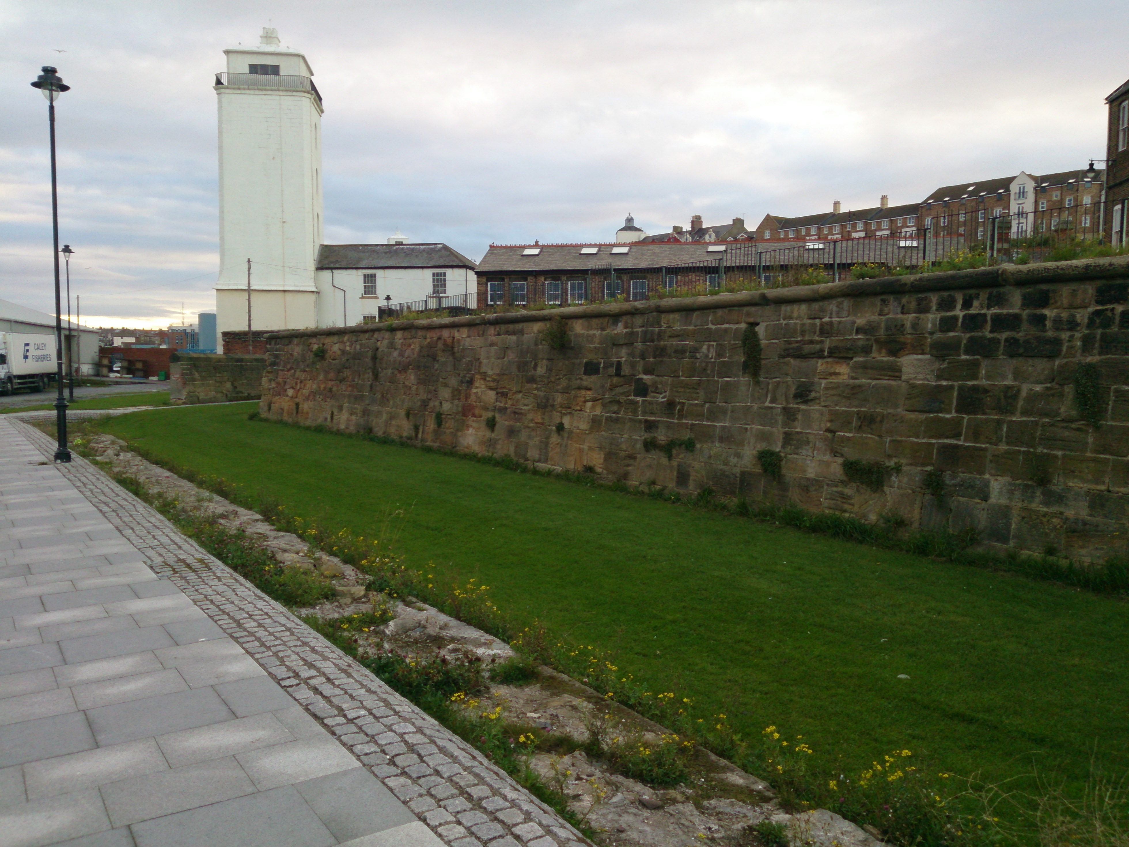 Clifford's Fort South and East Wall Facing River